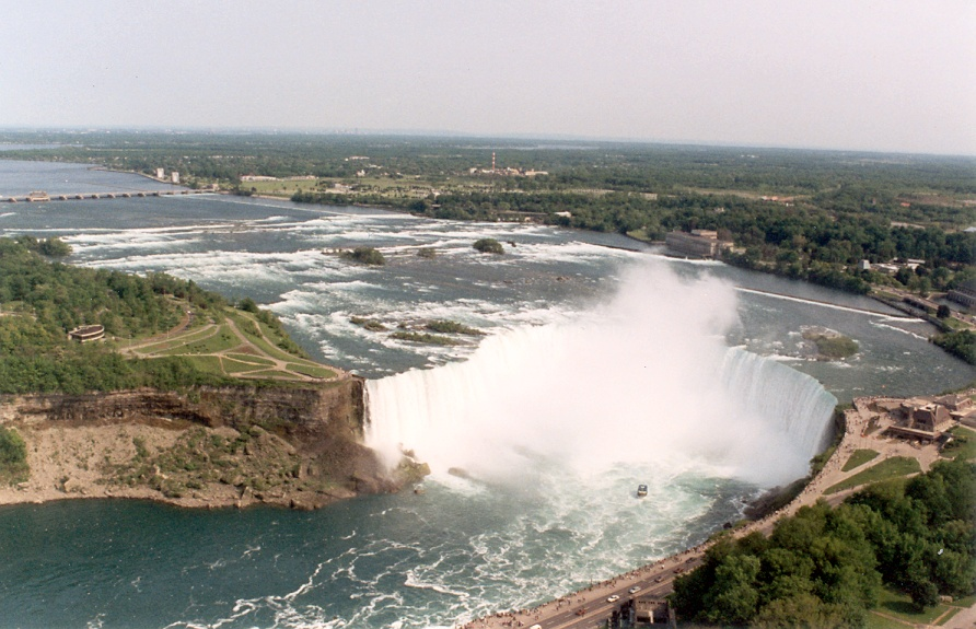 Niagara Falls - Horseshoe Falls, Canada.